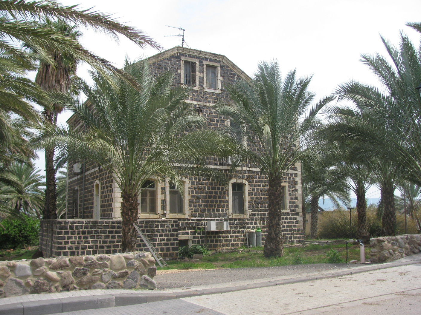 Kinneret, Moshava, Settlements in Israel